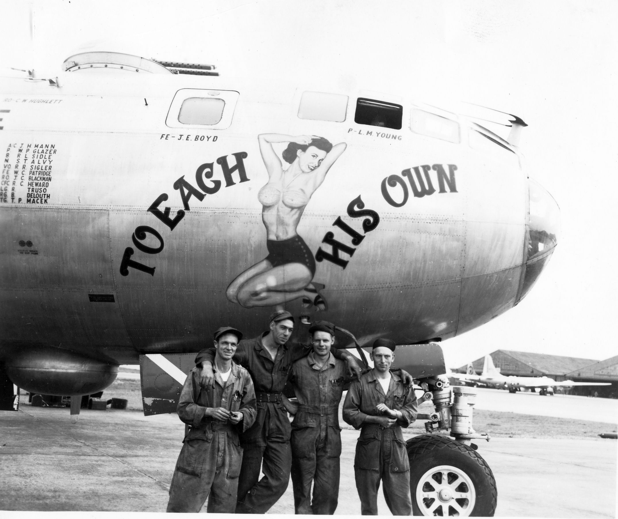 PUBLIC COMMONS.SOURCE INSTITUTION: San Diego Air and Space Museum Archive SDASM. TAGS: Boeing B-29A, 44-62207, nose art "To Each His Own", 98th BW, 344th BS.